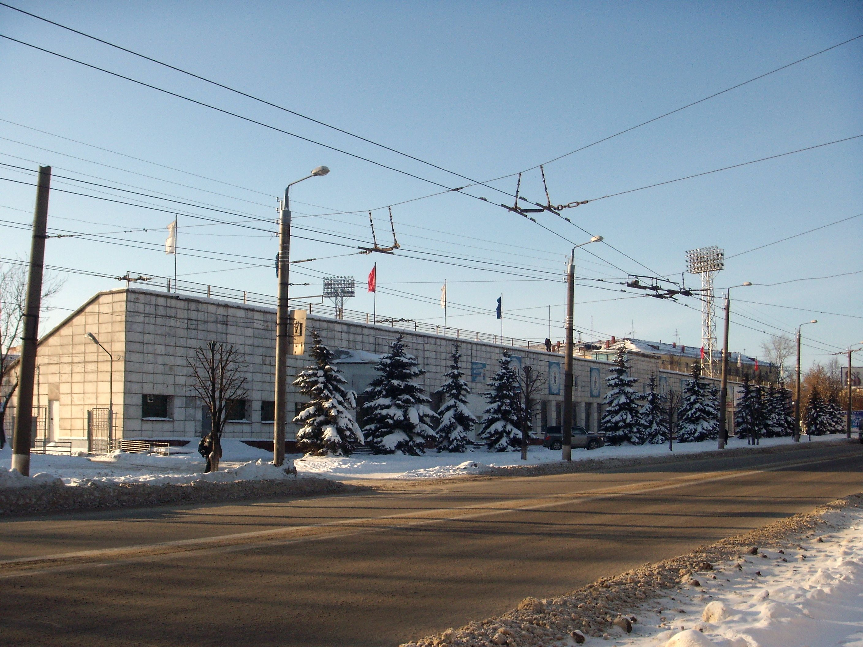 Stadium «Rodina» ("Motherland") in Kirov